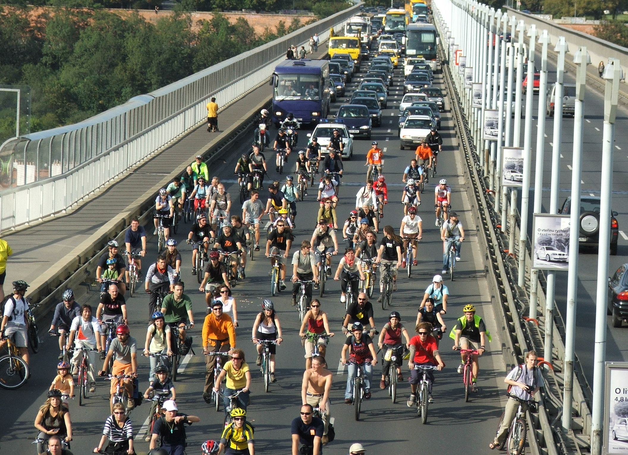 Critical Mass on the bridge over Nusle, 22nd September 2007, Prague, Czechia.